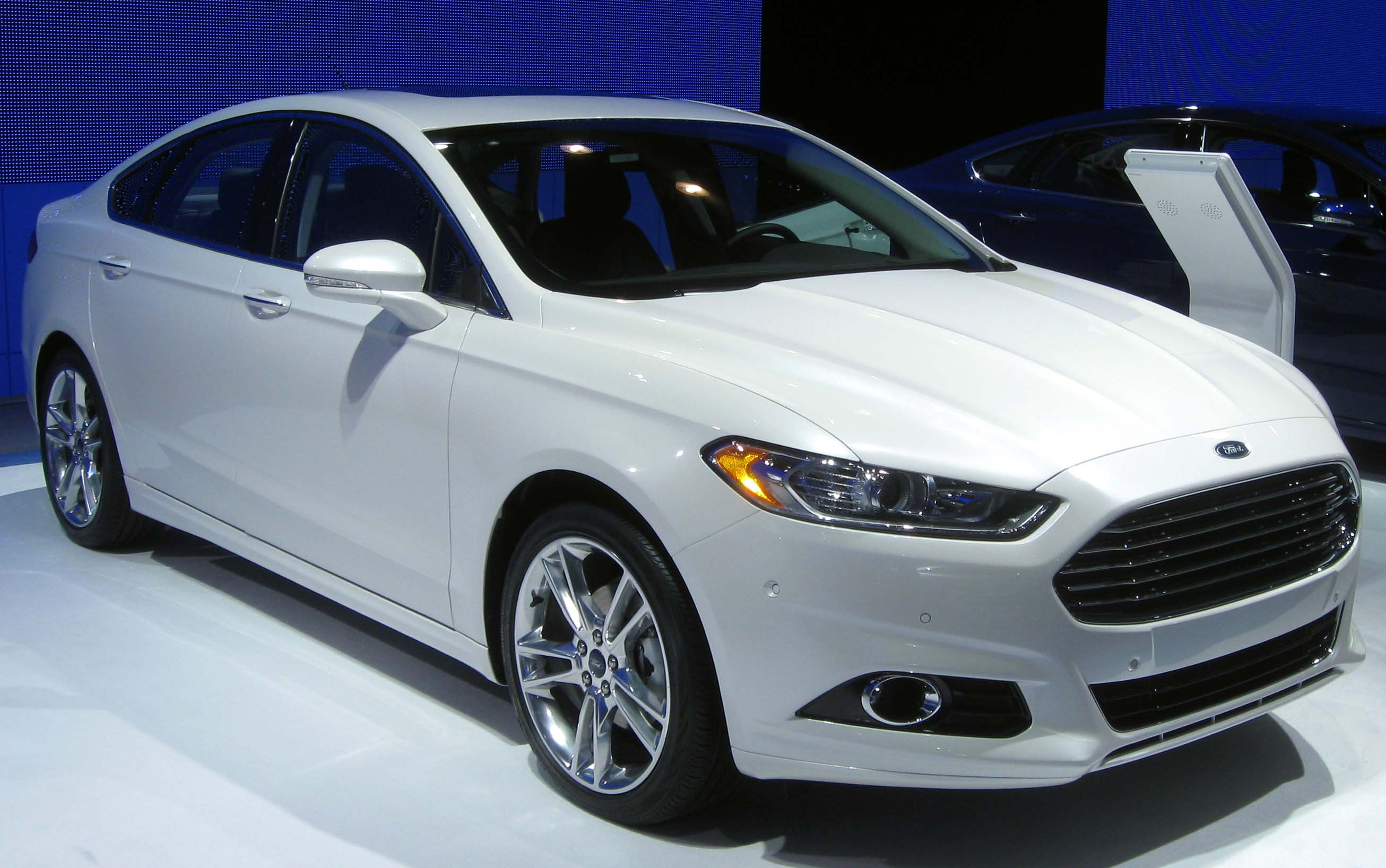 2013 Ford Fusion photographed at the 2012 New York International Auto Show.